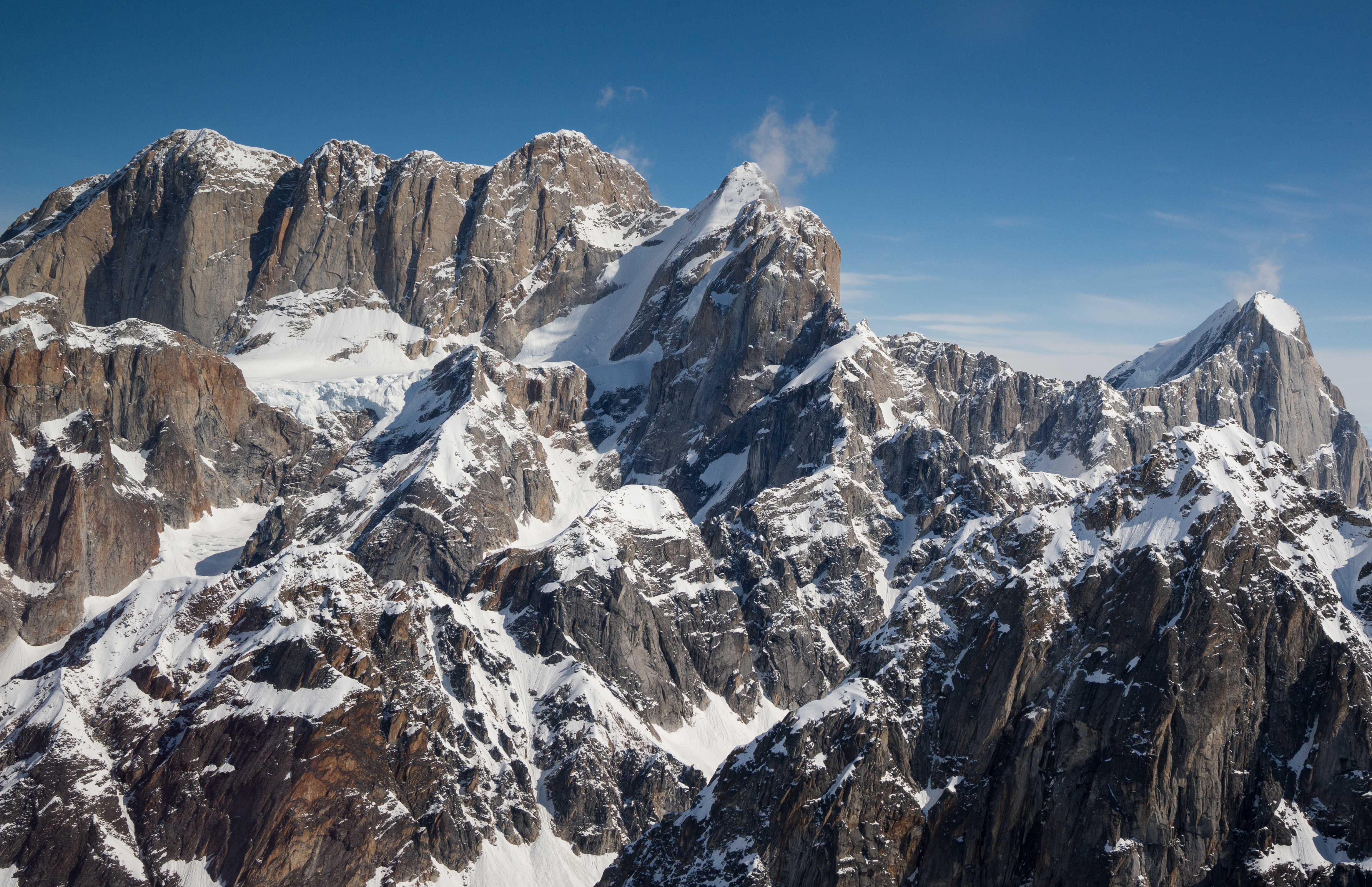 The Moose's Tooth aerial. Denali National Park, Alaska